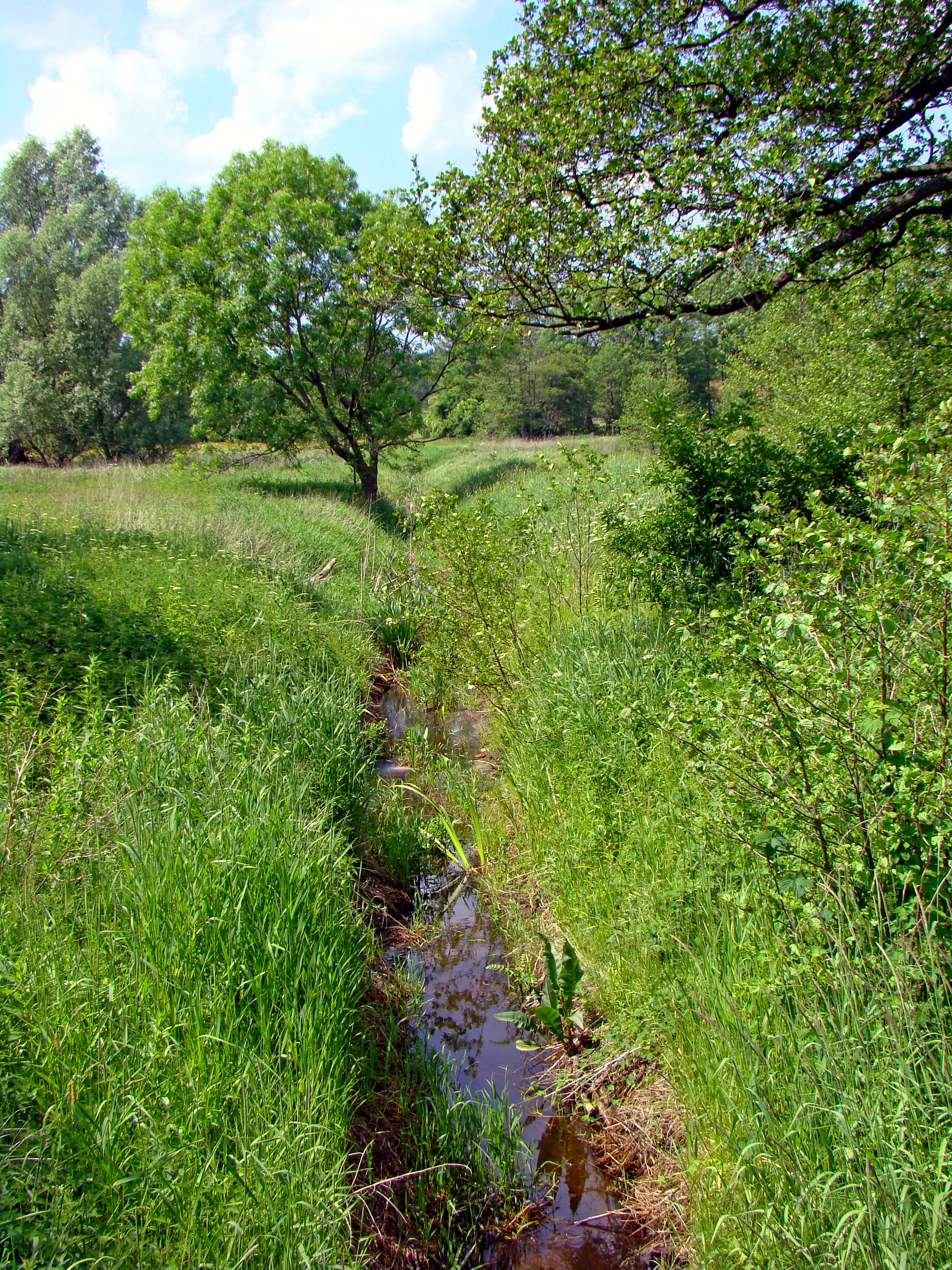 Janica (Niczonow & Niczonow Forest), West Pomeranian Voivodeship, Poland